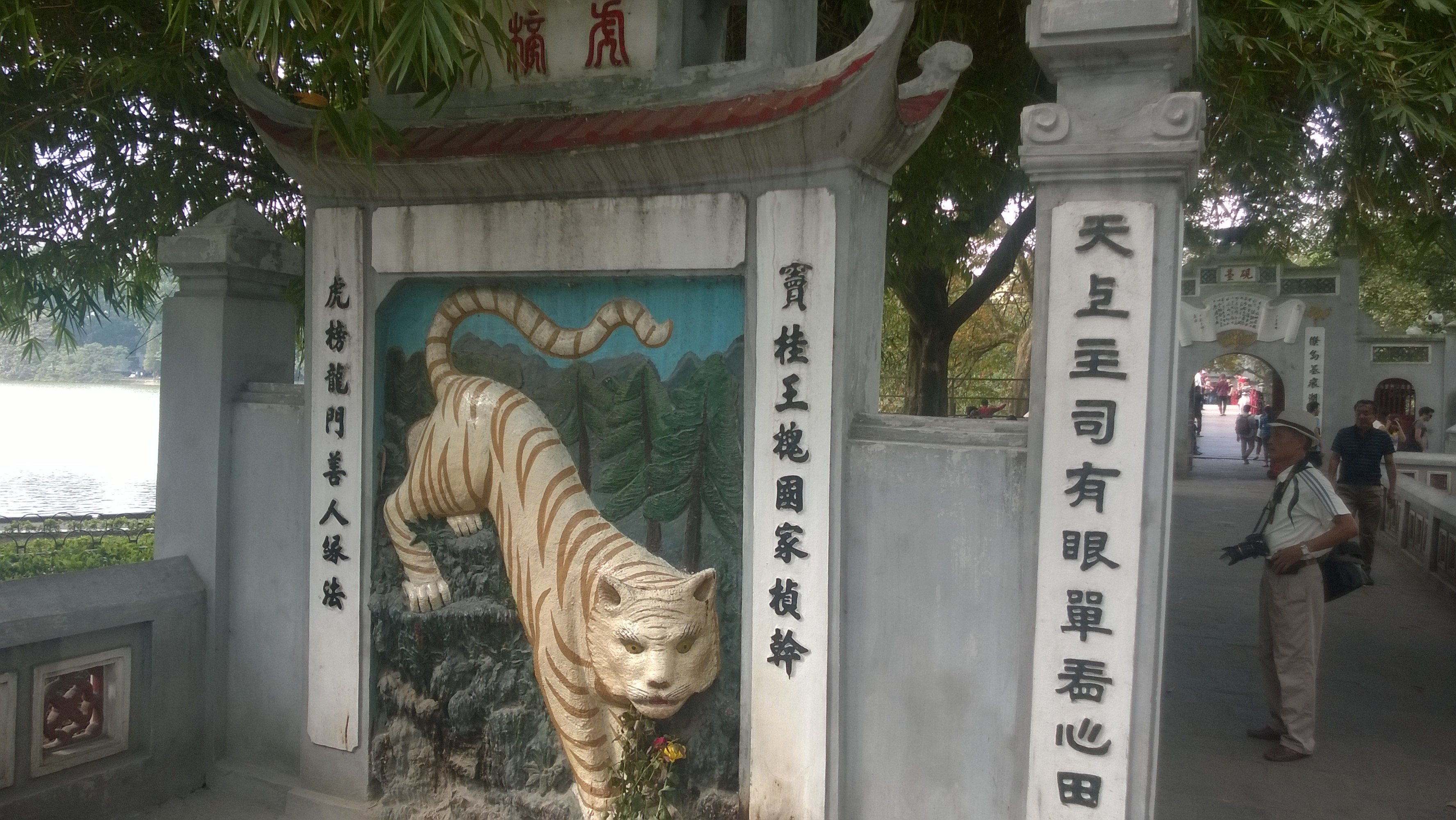 The Ho Hoan Kiem lakeside temple in 2014, Hanoi Vietnam.